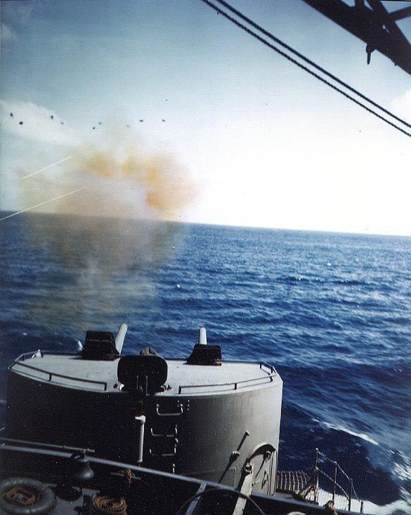 USS Alaska (CB-1) firing 5"/38 guns on 5 February 1945, one day before the ship arrived at Ulithi and joined the fast carrier task force. Note "flak" bursts in the left distance. Removed caption read: Photo # K-3031 Gunnery practice on USS Alaska, 1945